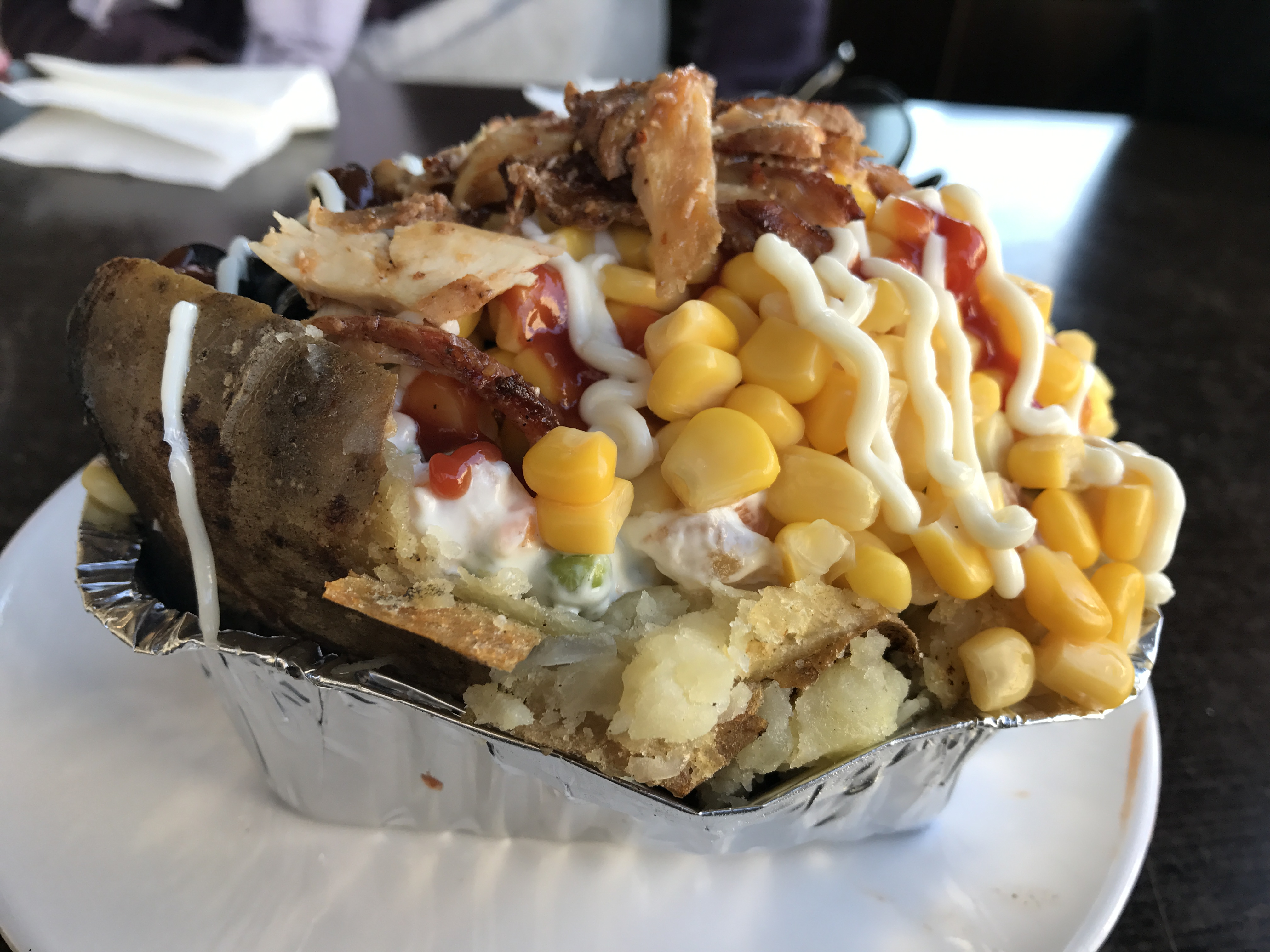 Kumpir is a turkish appetizer, yet a full meal. it consists of baked potato with its skin; potato inside is mixed with cheese while still hot; then topped with different things like corn, black olives, mayo and ketchup. الكمبير هو طبق من تركيا، يتكون من البطاطا المشوية بقشرتها، وتختار القطع الكبيرة لذلك، بعد قطع جزء من البطاطا، يتم مزج المحتوى الداخلي مع الجبنة أو المارغرين فتذوب بسرعة كون البطاطا ساخنة، وتوضع مكونات أخرى كالذرة والزيتون وقطع الملفوف وقطع الشاورما أحيانا، والمايونيز والكتشب حسب الطلب